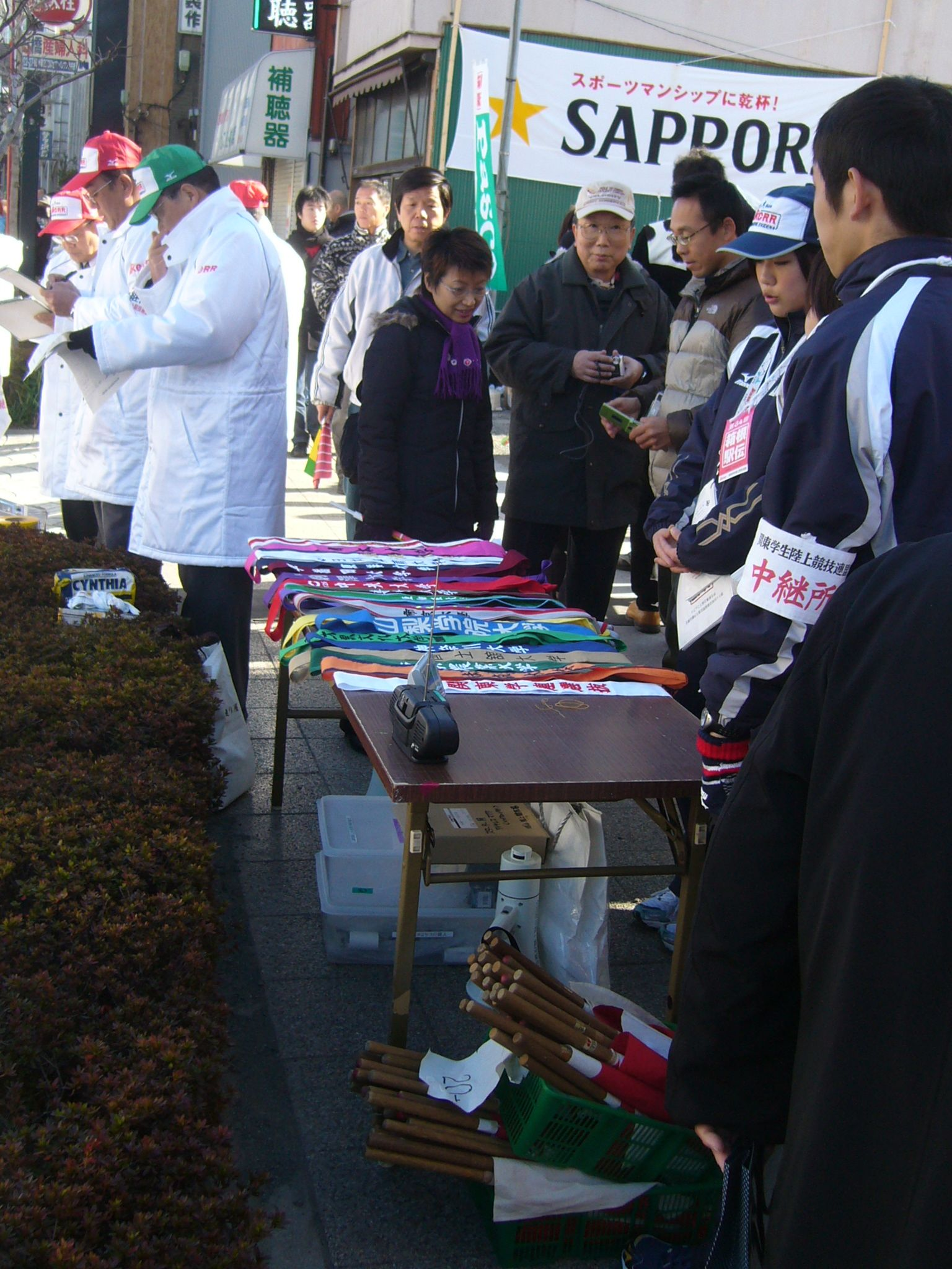 A cord of the Hakone Ekiden.